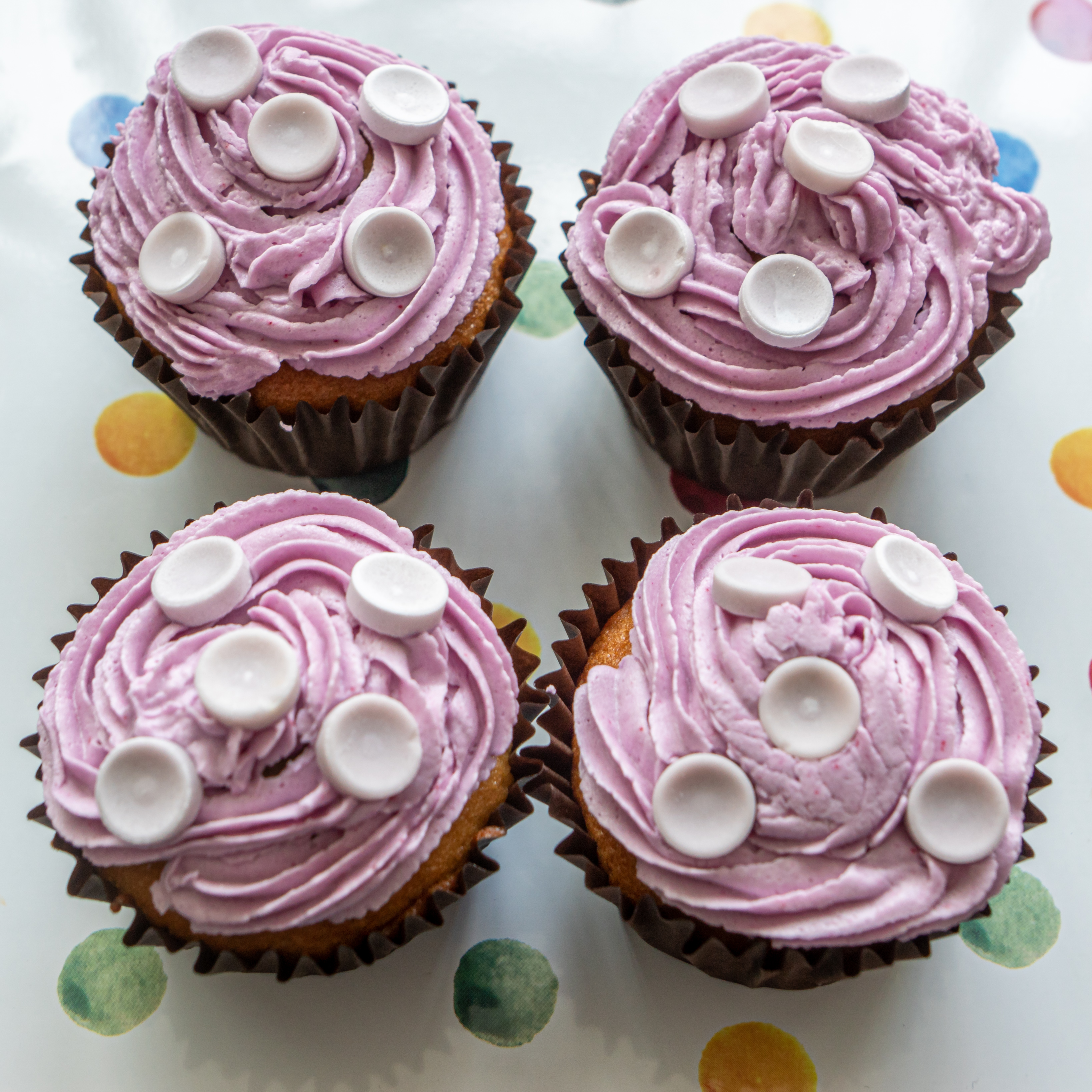 Parma Violets cupcakes. A vanilla sponge covered in parma violet flavoured buttercream and sprinkled with Parma Violets sweeties.